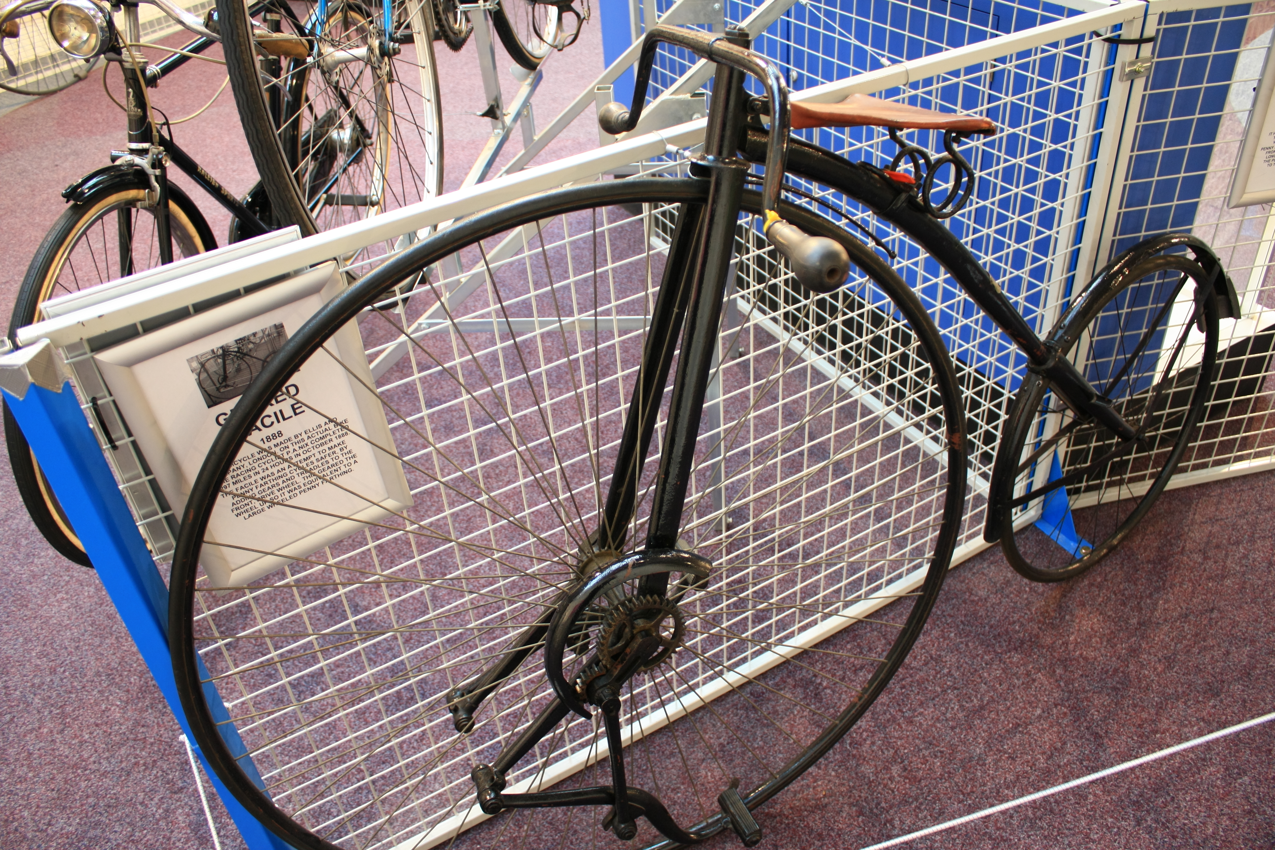 "This bicycle was made by Ellis and Company, London. On this actual bike, the racing cyclist P.A. Nix completed 297 miles in 24 hours in October 1888. The Facile was an attempt to make Penny farthing cycles safer, by adding gears and treadles to the front, drive wheel. This geared the wheel up so it was equilvalnt to a large wheeled Penny Farthing." Coventry Transport Museum, UK. 2009